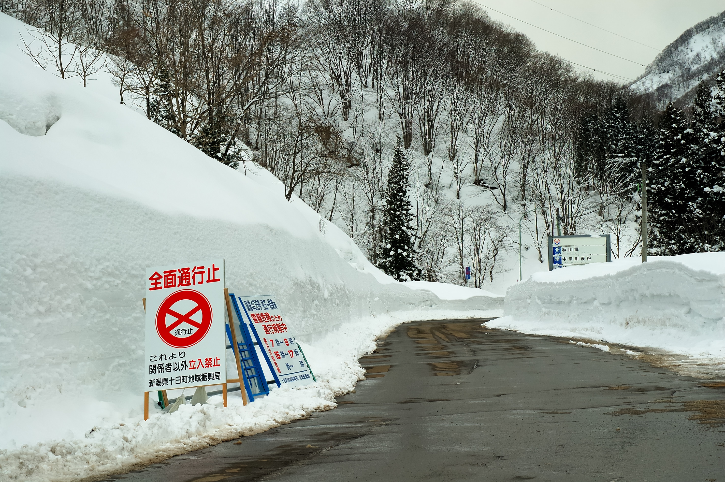 Route 405 Japan 2006 Winter (国道405号, 2006年冬. 新潟県ja:津南町内にて)